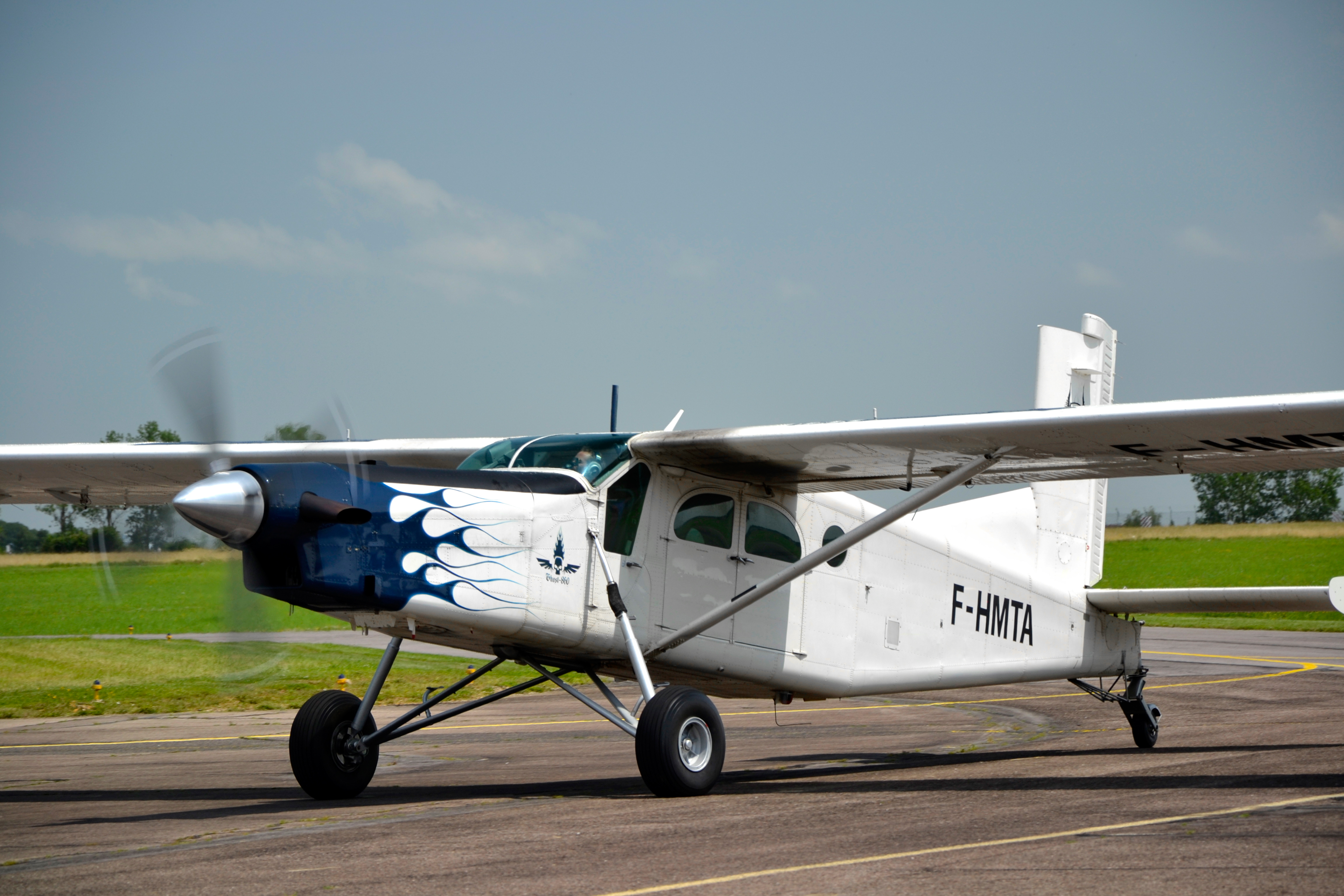 F-HMTA (cn 860) Nancy - Essey (ENC / LFSN)